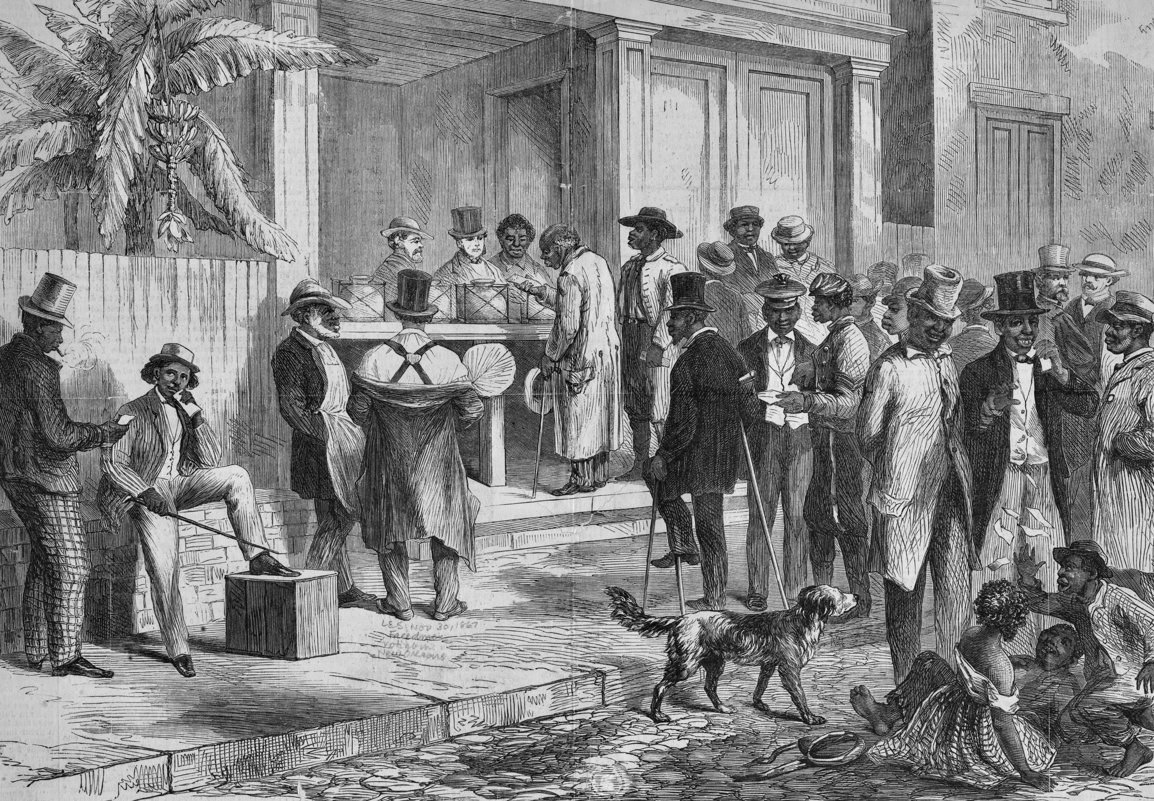 Jim Crow Laws "Freedmen Voting in New Orleans" 1867 engraving showing African Americans who hade been enslaved but a couple years later participating in election.